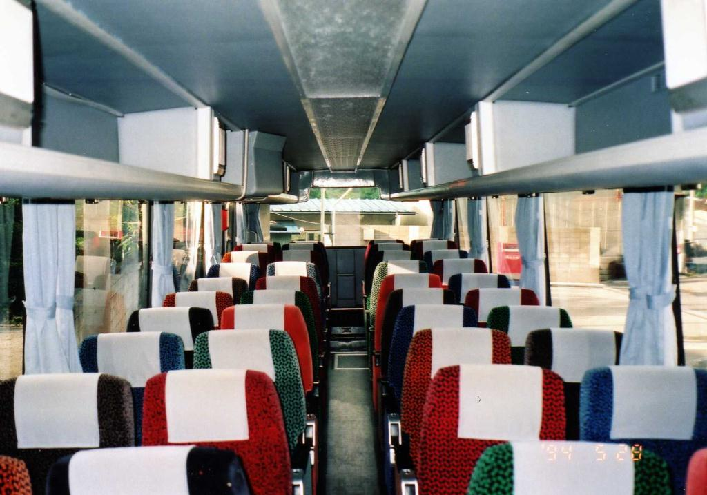 JR Bus Kanto（ジェイアールバス関東）S671-87401 "Yellow Bus" in the car Isuzu P-LV719R 1994-05-28 at Naganohara Branch Photo by Cassiopeia_sweet.